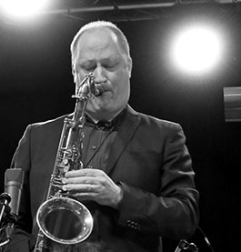 Joakim Milder conducting and playing with Aarhus Jazz Orchestre 2014